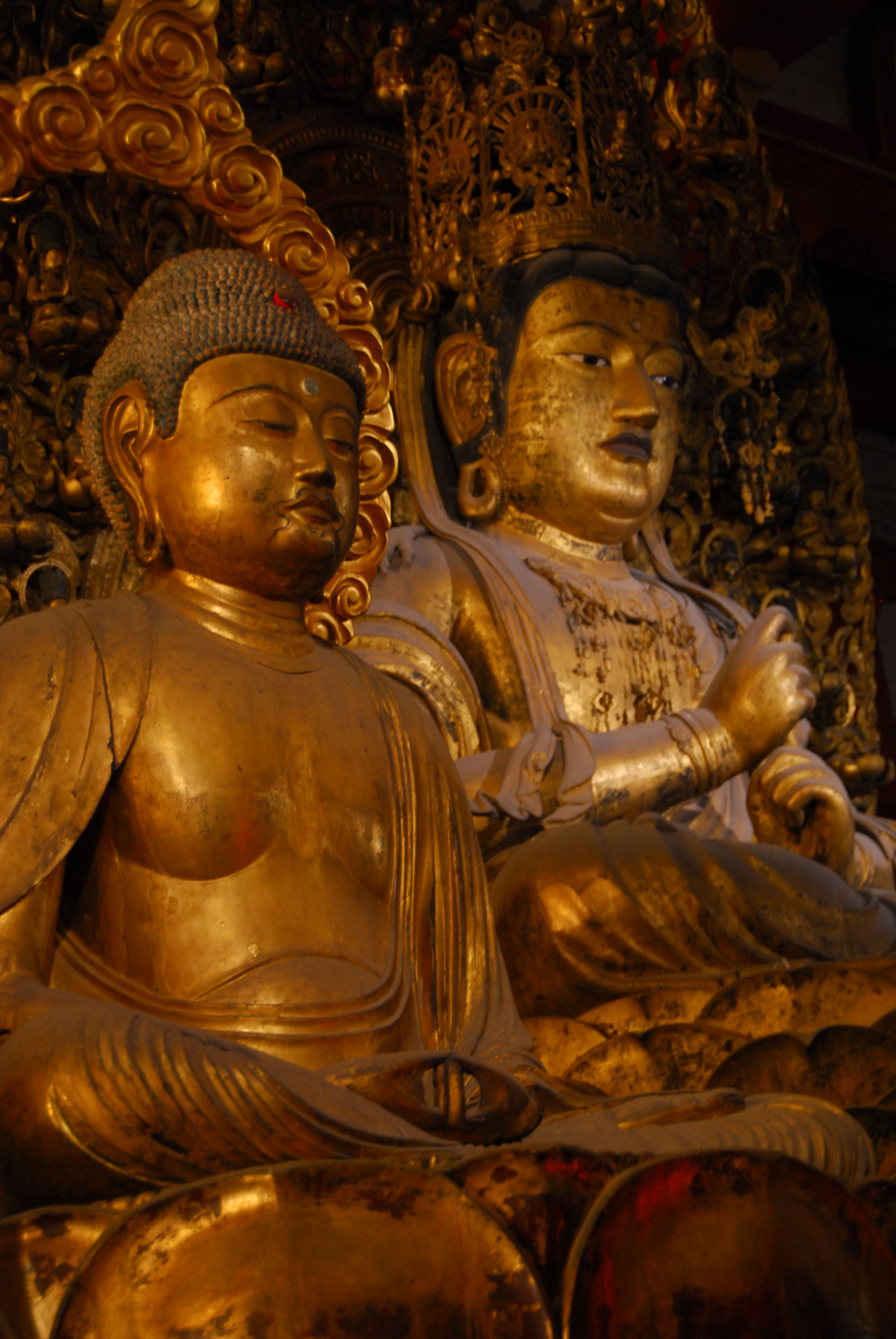 Two of the Five Great Bosatsu at the Lecture Hall (講堂, kō-dō) at Tō-ji in Kyoto, Japant. The statue in front dates to 839 AD and has been designated a National Treasure of Japan. The statue in the back is the central image of the group of five statues and a later work. It is not part of the National Treasure nomination.